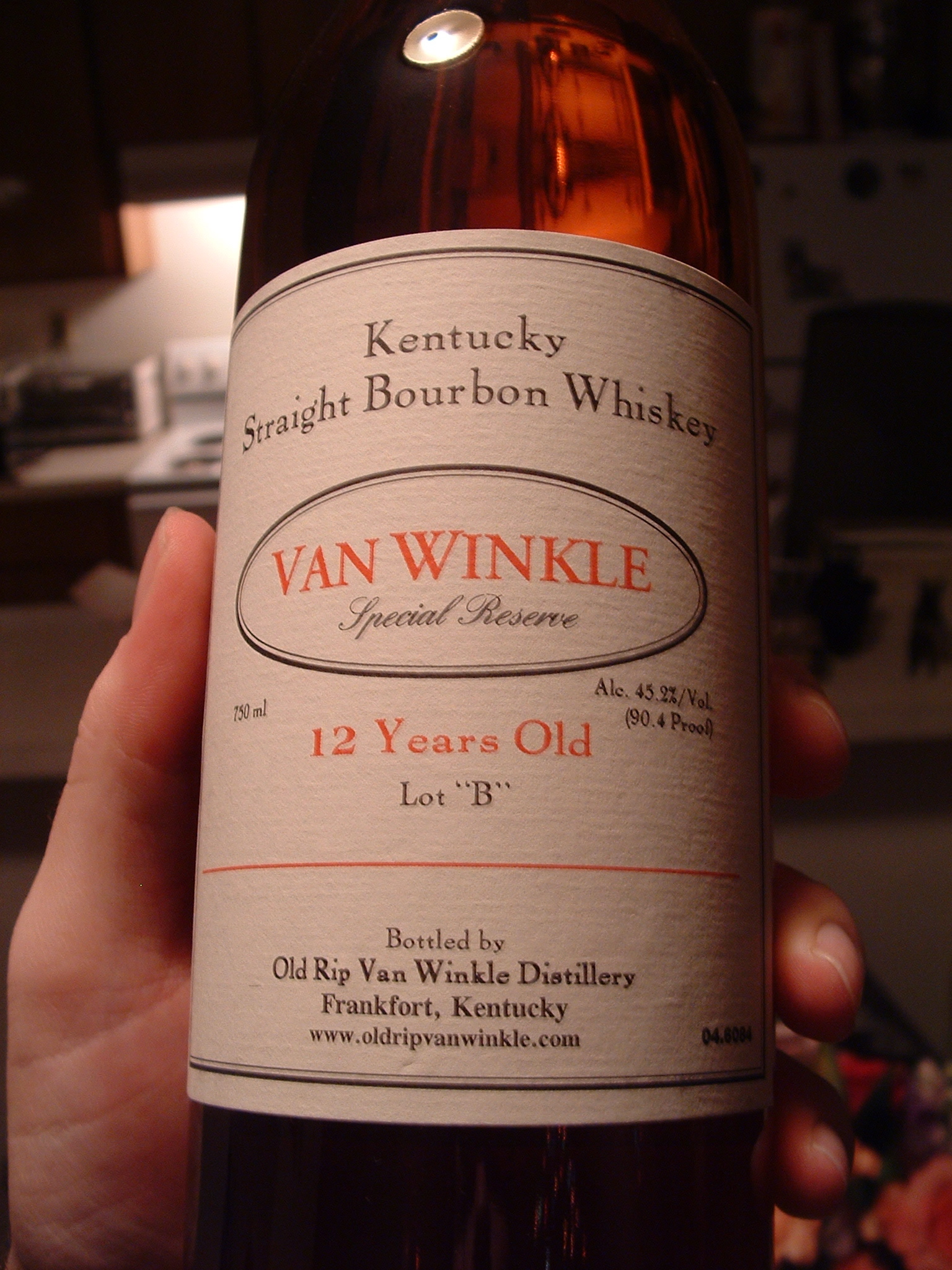 Van Winkle bourbon whiskey... very good, sharp bite with a smokey and buttery aftertaste. Label says: Kentucky Straight Bourbon Whiskey, Van Winkle Special Reserve, 90.4 proof, 750 ml, 12 years old, Lot "B", Bottled by Old Rip Van Winkle Distillery, Frankfort, Kentucky